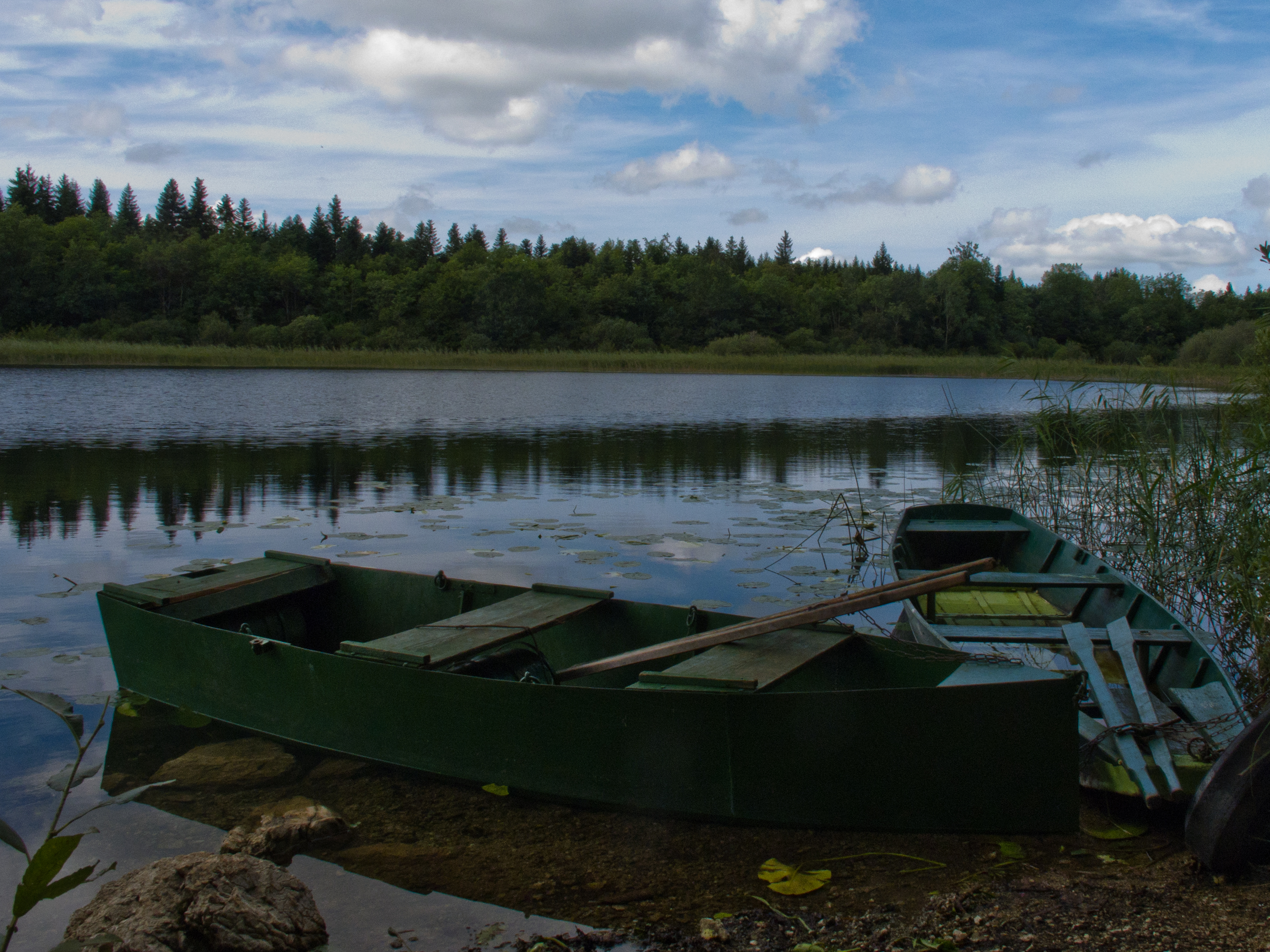 Etival little lake, Jura, France